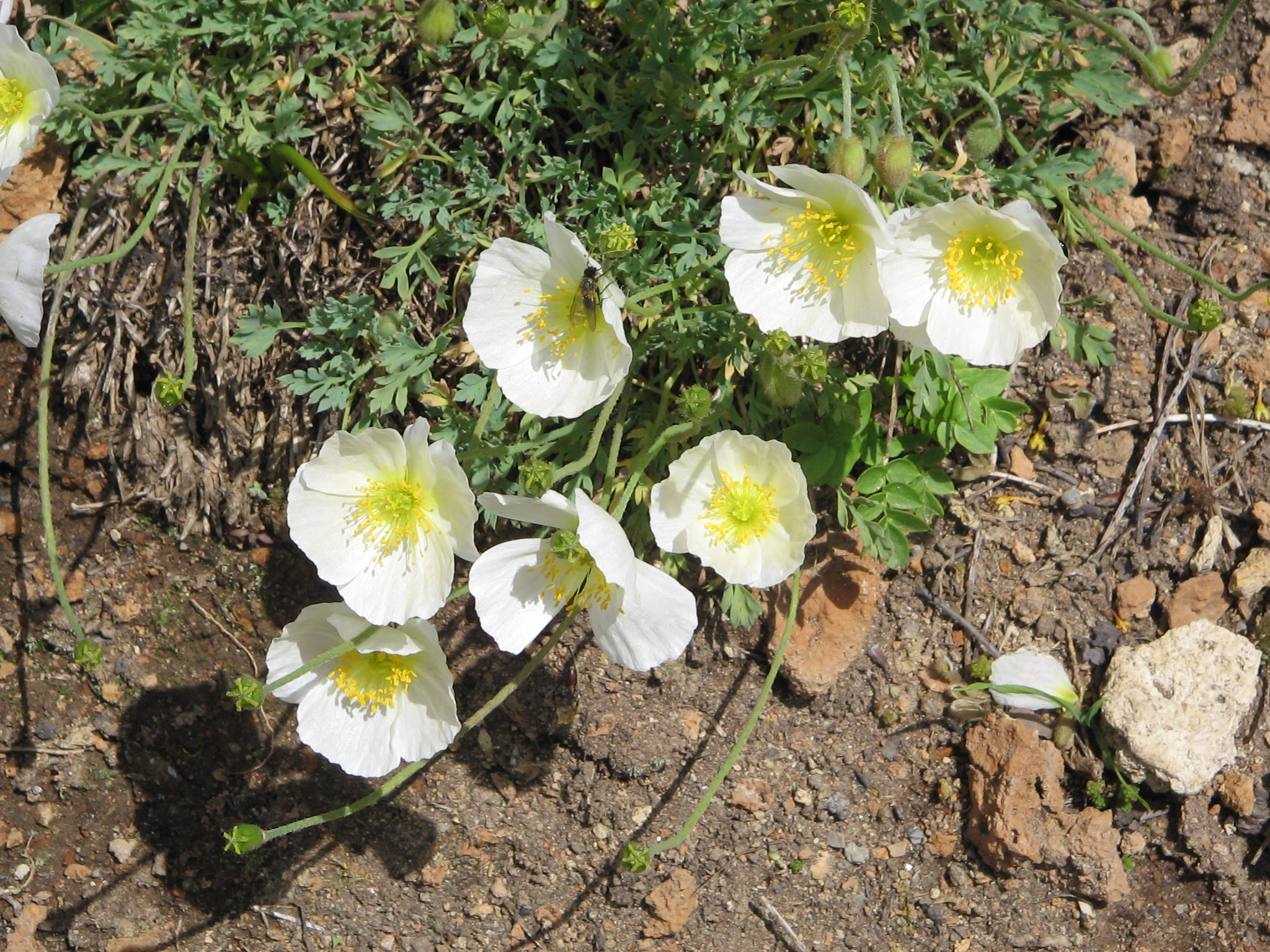 Papaver sendtneri